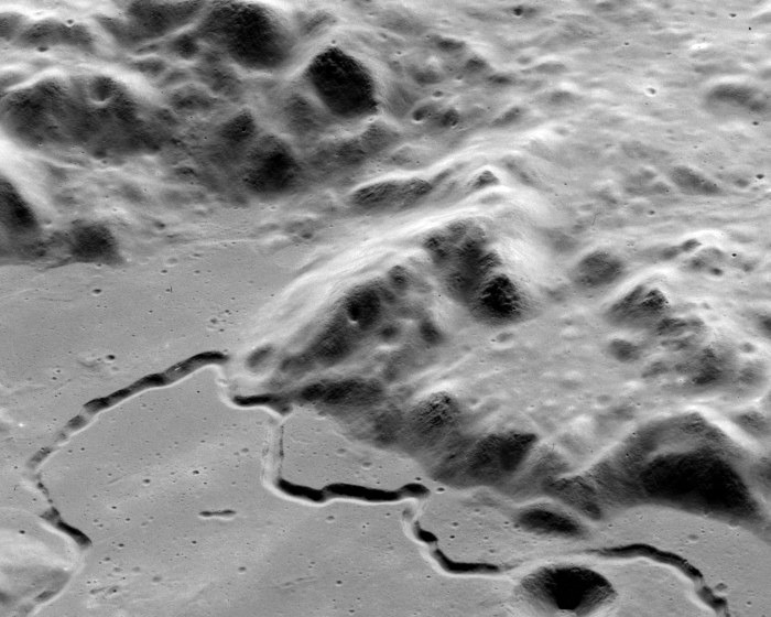 Oblique view of Mons Hadley Delta of the Montes Apenninus, including Hadley Rille (bottom), and the Apollo 15 landing site, facing east from an altitude of 105 km, on revolution 34 of the Apollo 15 mission.